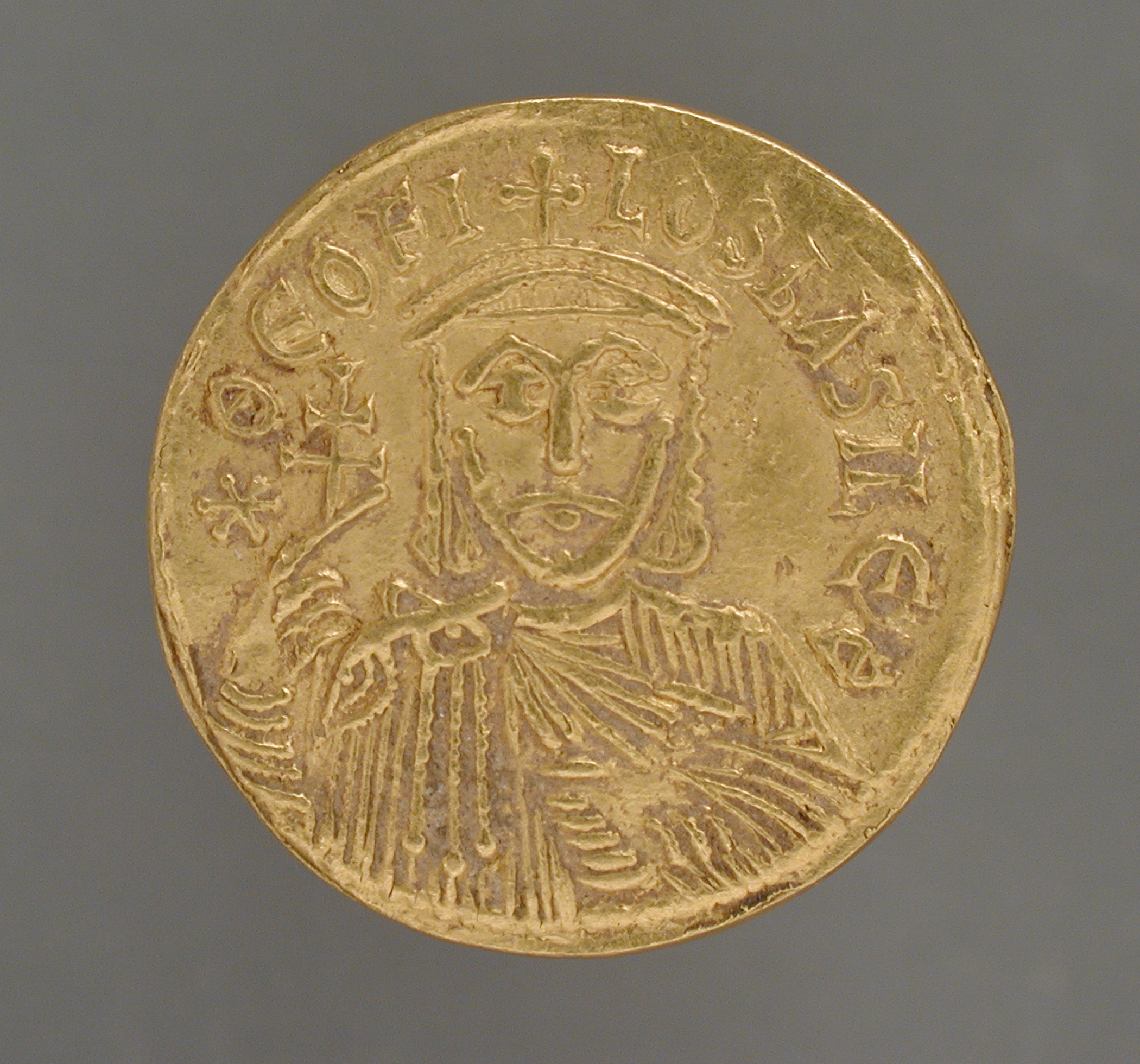 Eastern Mediterranean, Byzantine, 829-867 Tools and Equipment; coins Gold Gift of Dr. Robert Majer (M.79.126.1) Art of the Ancient Near East